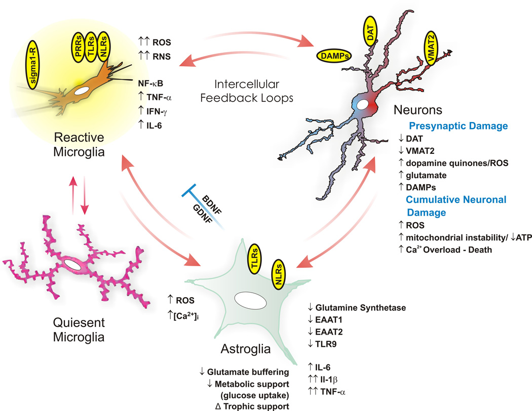 Follow this link to read the original description/caption in the review on glial modulators.